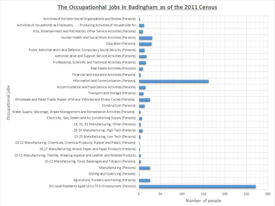 2011 Census data of the occupatinal jobs in Badingham